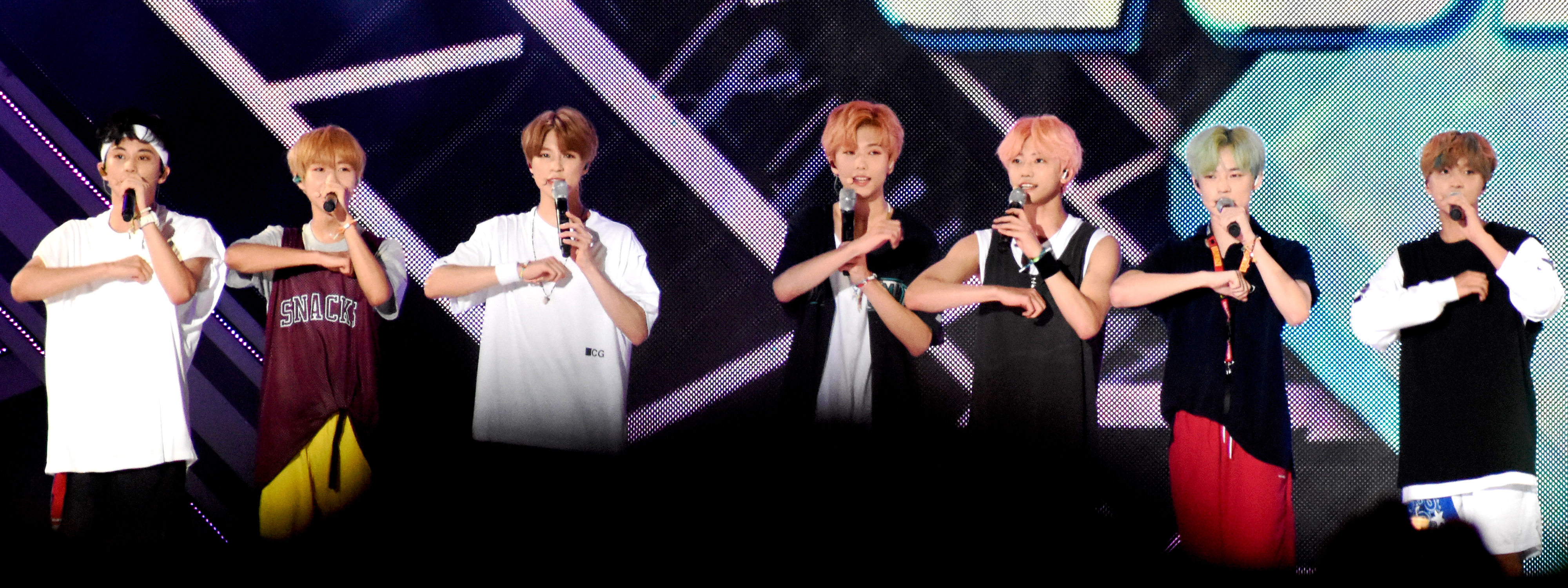 NCT Dream at the 2018 Incheon Airport Sky Festival on September 2, 2018. Аҧсшәа: 2018년 9월 2일 스카이페스티벌에서의 엔시티 드림.